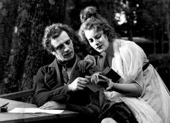 Greta Garbo in Gösta Berlings Saga 1924, her first big role, scene here with Lars Hanson.